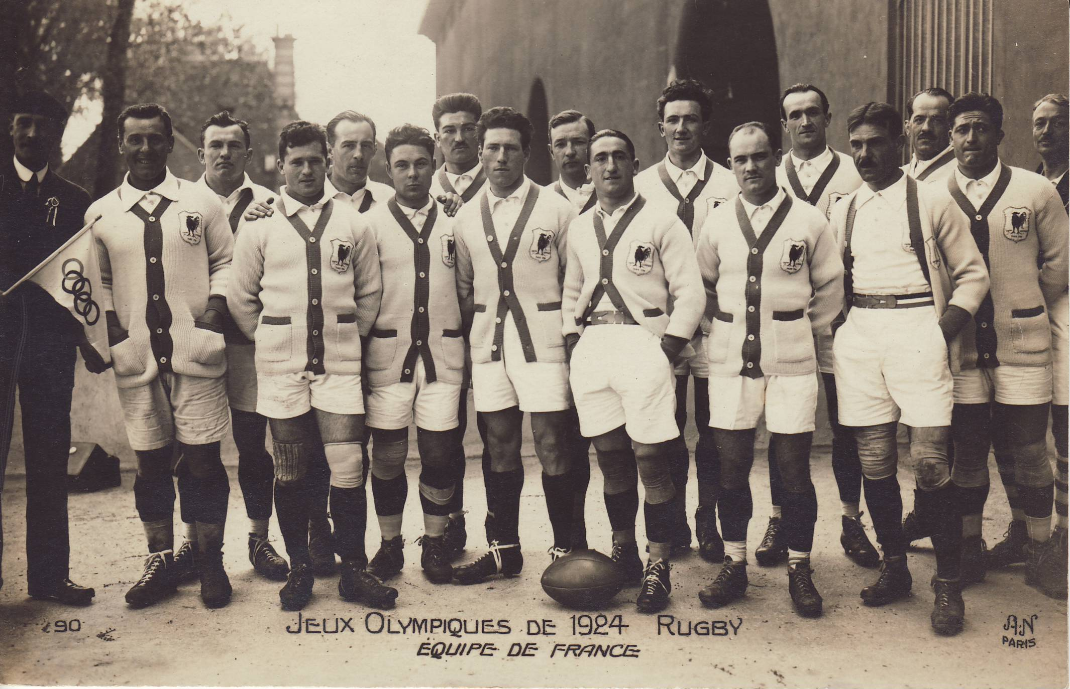 The French national rugby team that competed at the 1924 Olympic Games.